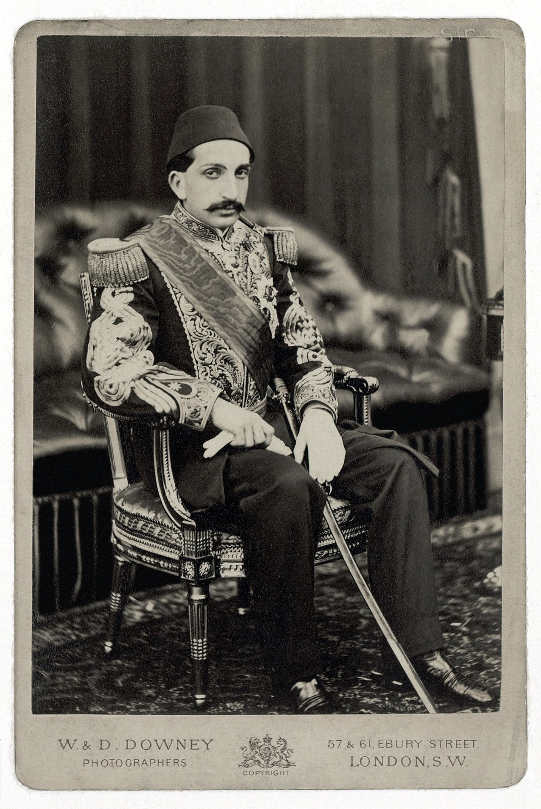 Shahzade Abdulhamid II (1842-1918), probably on Balmoral Castle (GB) in 1867.